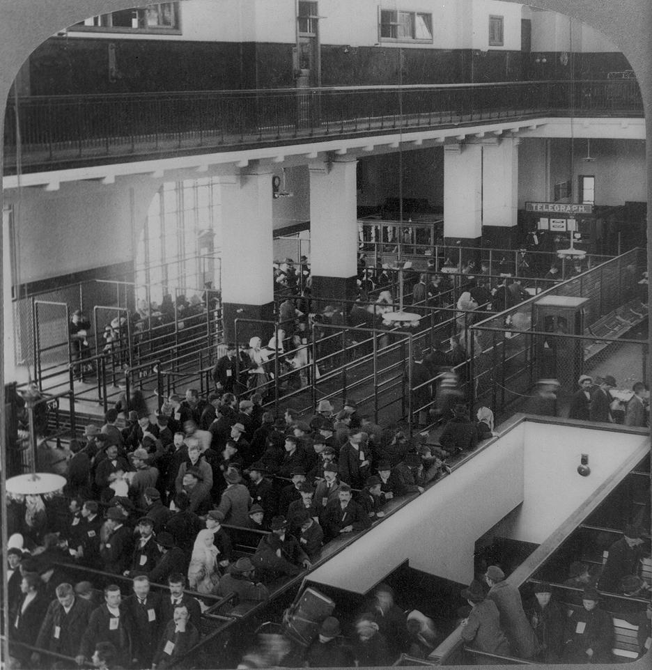 Immigrants just arrived from Foreign Countries--Immigrant Building, Ellis Island, New York Harbor. (Half of a stereo card)